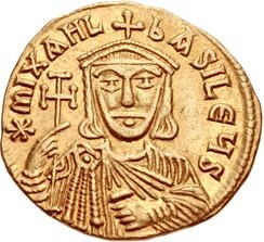 Solidus of Michael II the Amorian.